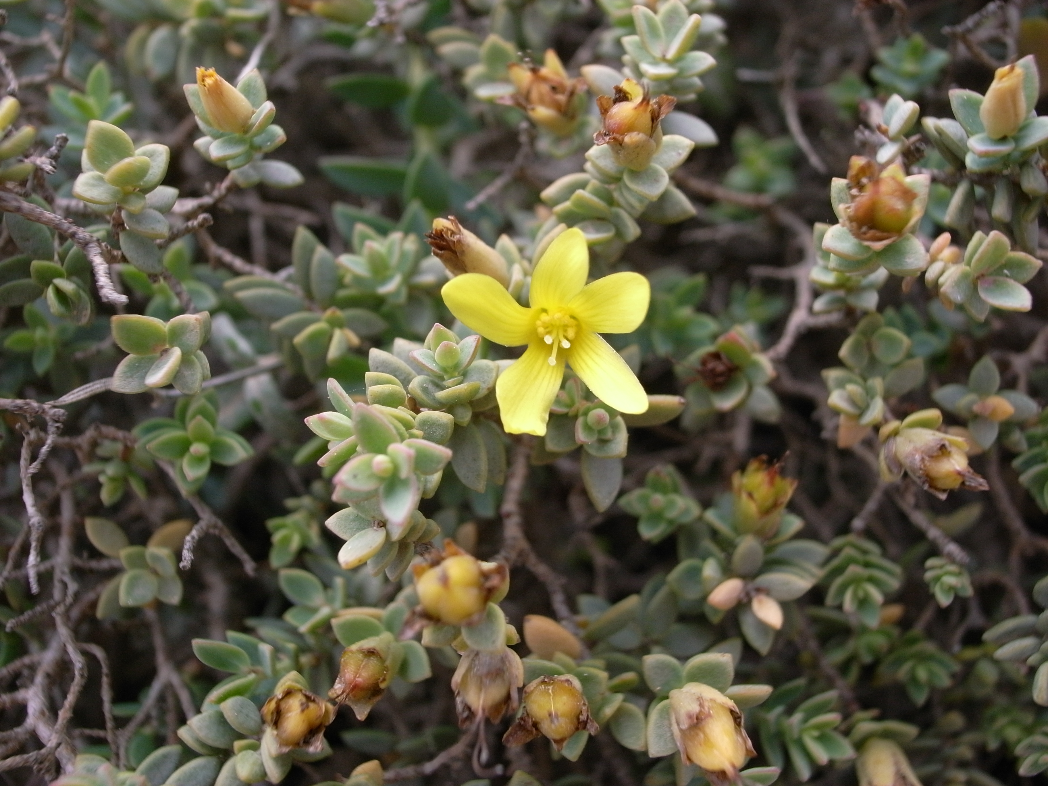 Hypericum aegyticum subsp. webbii, Dingli Cliffs, Malta